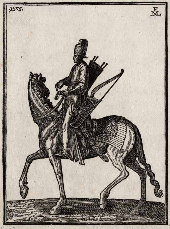 Ottoman Soldiers from contemporary European Illustrations by Melchior Lorck, 1570-83